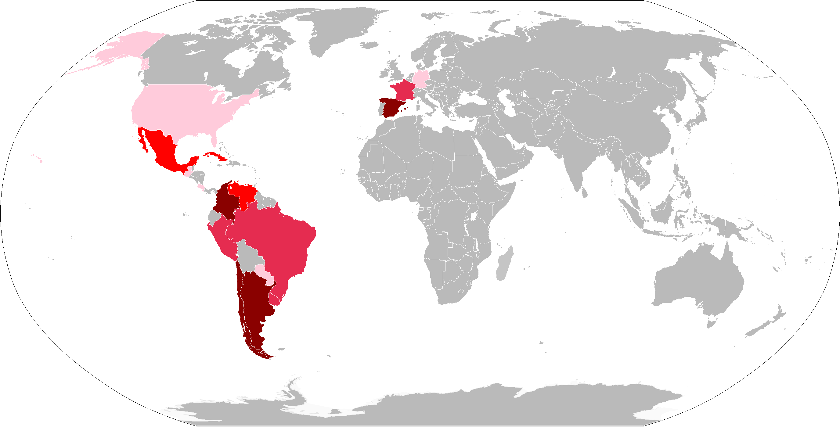 This map depicts countries by number of people, who reported Basque ancestry based on sources provided in Basque diaspora article. Legend: More than 3 million More than 1 million More than 500 thousand More than 50 thousand